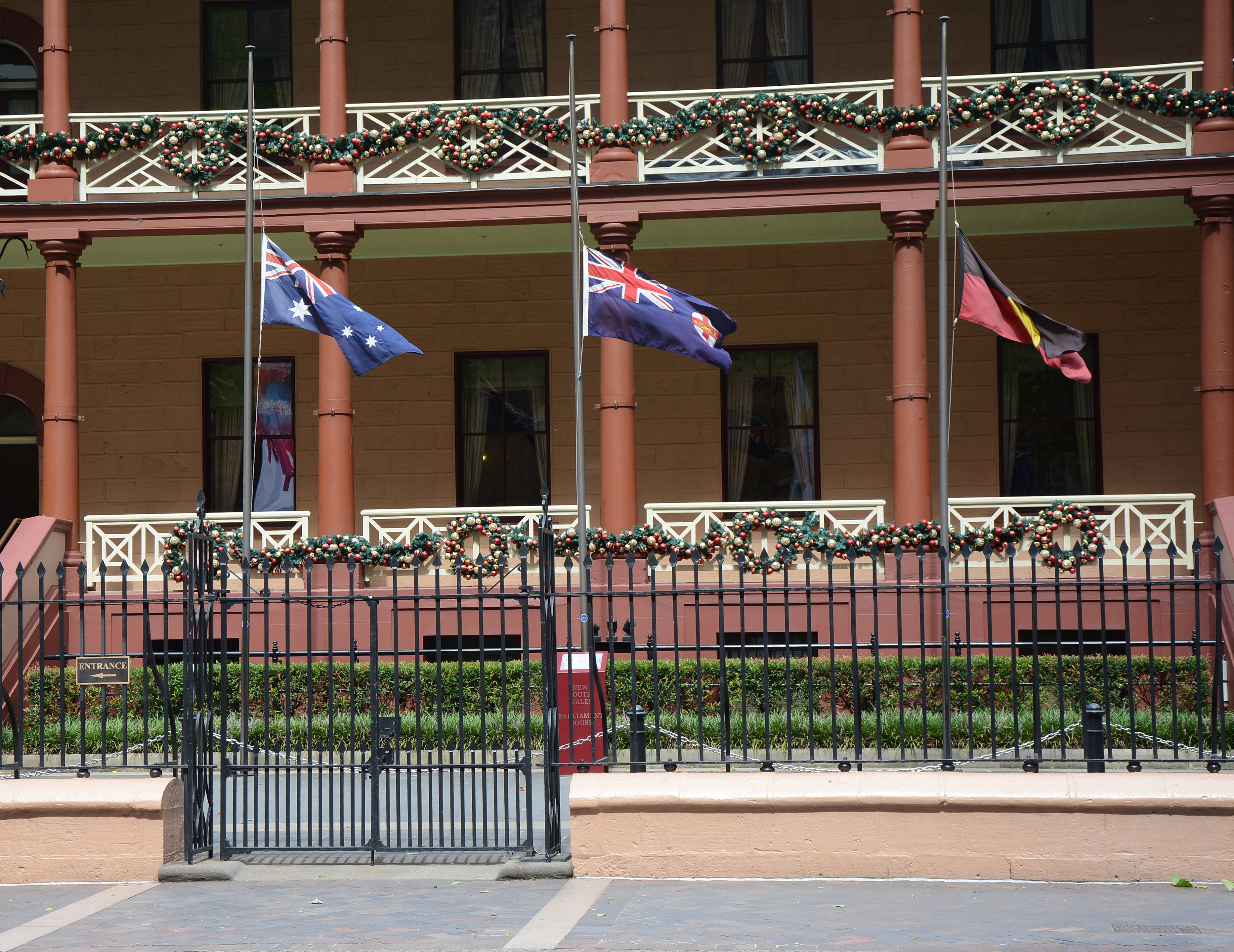 Flags at half-mast, Parliament House, Macquarie Street, Sydney, after Lindt Café siege, Martin Place, Sydney, 2014-12-16